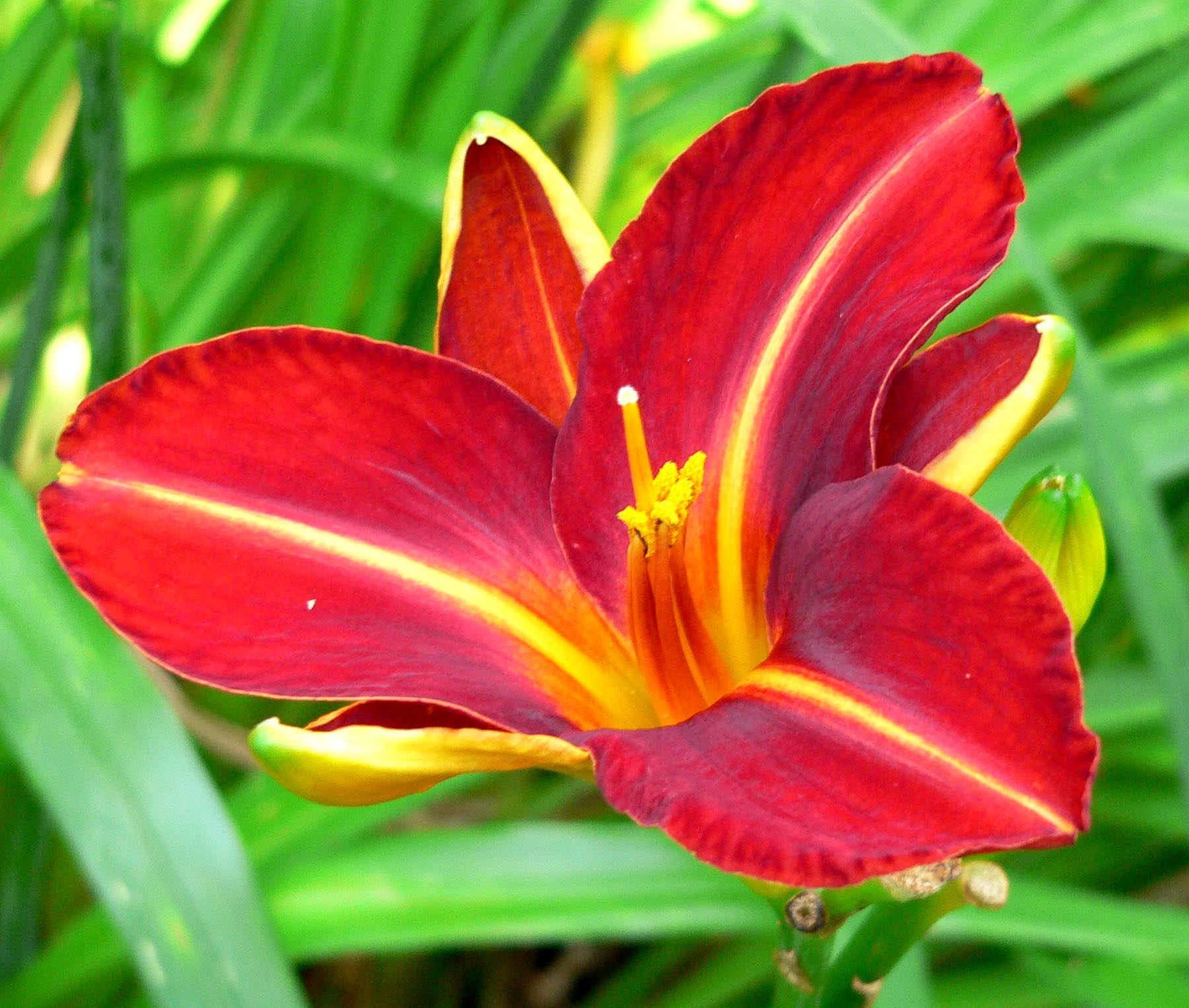 Photo of Hemerocallis 'Lusty Lealand' at the VanDusen Botanical Garden in Vancouver